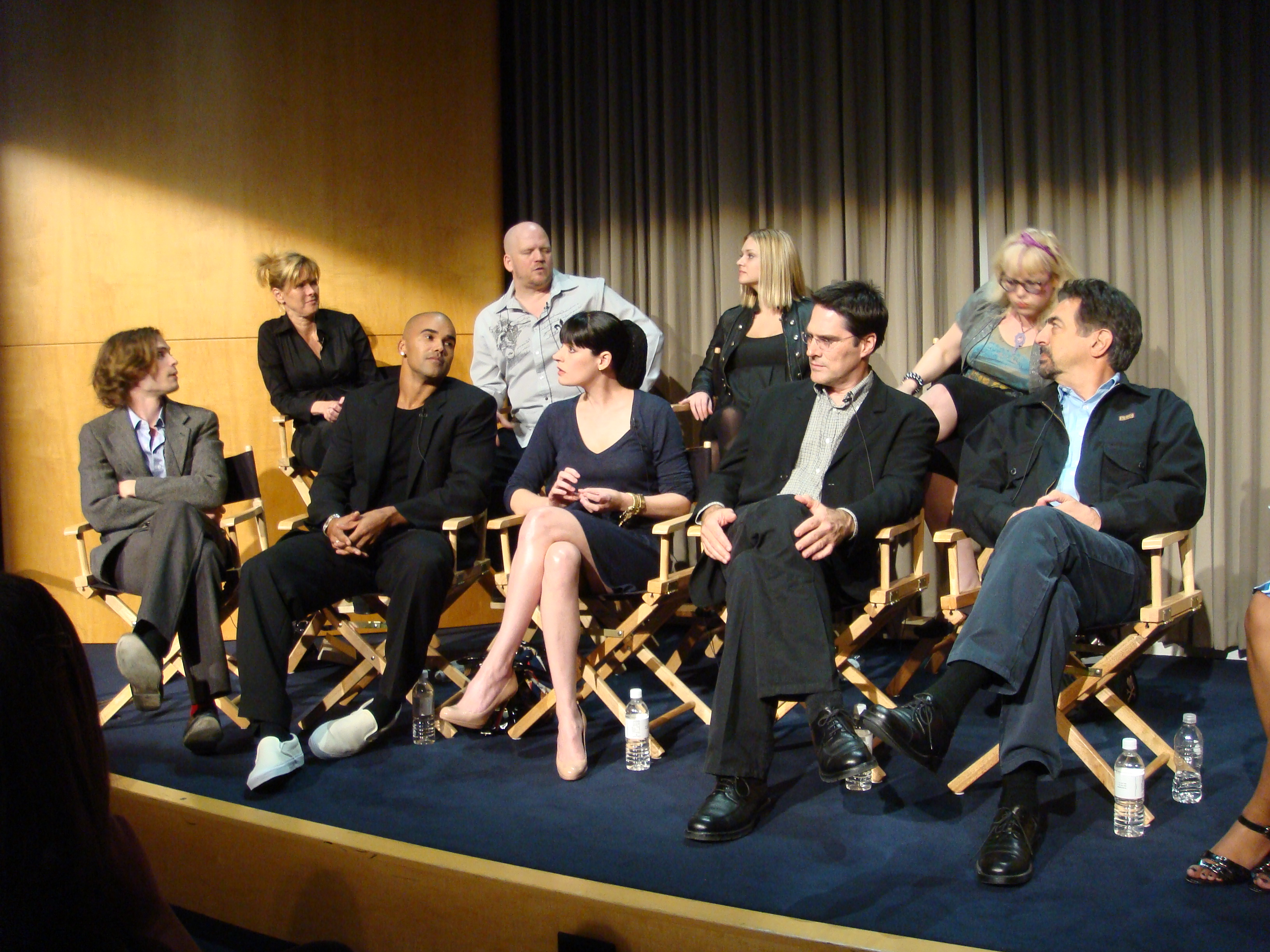 The cast of Criminal Minds at the Paley Centre. Back row (left to right): Jayne Atkinson, Ed Bernero (producer), A. J. Cook, Kirsten Vangsness. Front row: Matthew Gray Gubler, Shemar Moore, Paget Brewster, Thomas Gibson, Joe Mantegna